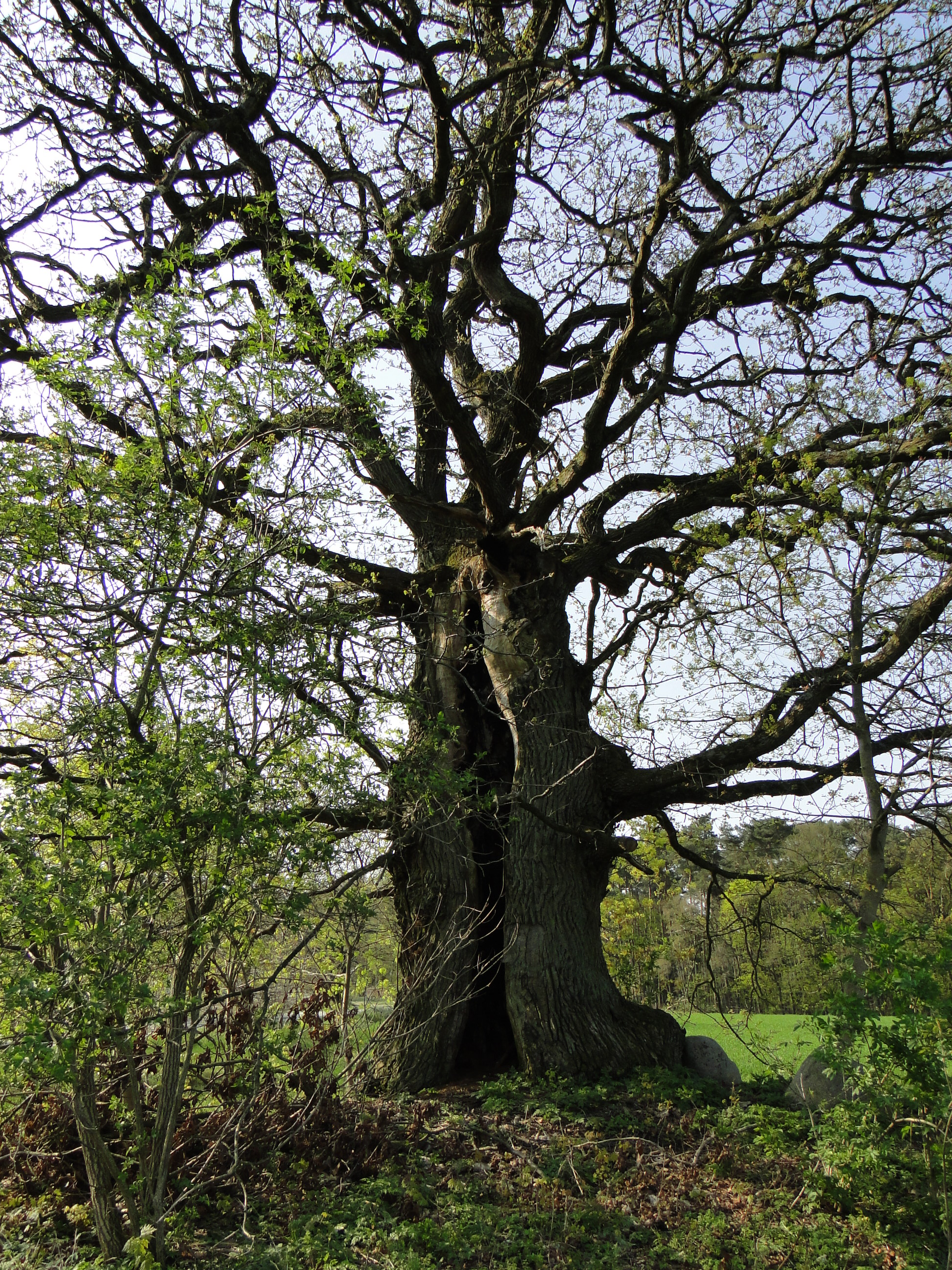 Pedunculate Oak / Pedunculate Oak in Spendin, district Parchim, Mecklenburg-Vorpommern, Germany